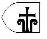 Banner of the mythical Prester John in the 14th century anonymous "Libro del Conoscimiento de todos reynos". Transferred from de.wikipedia to Commons.